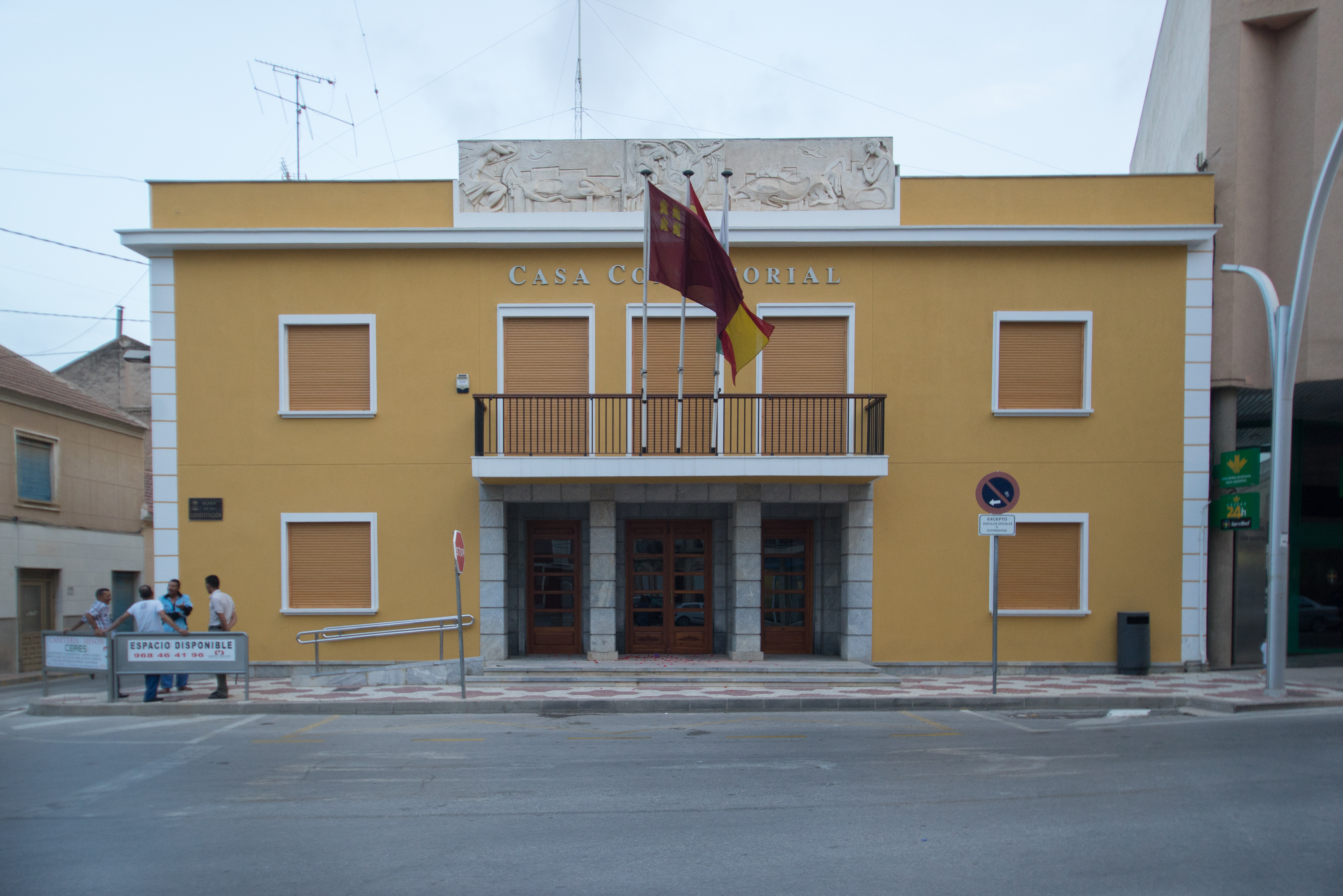 Town Hall of Fuente Álamo in Murcia